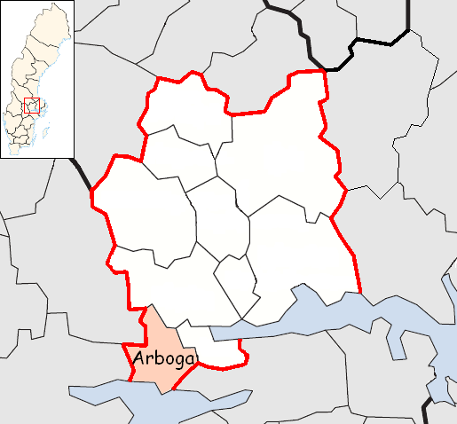 Arboga Municipality in Västmanland County Designed by me. Mere outlines are a PD source from